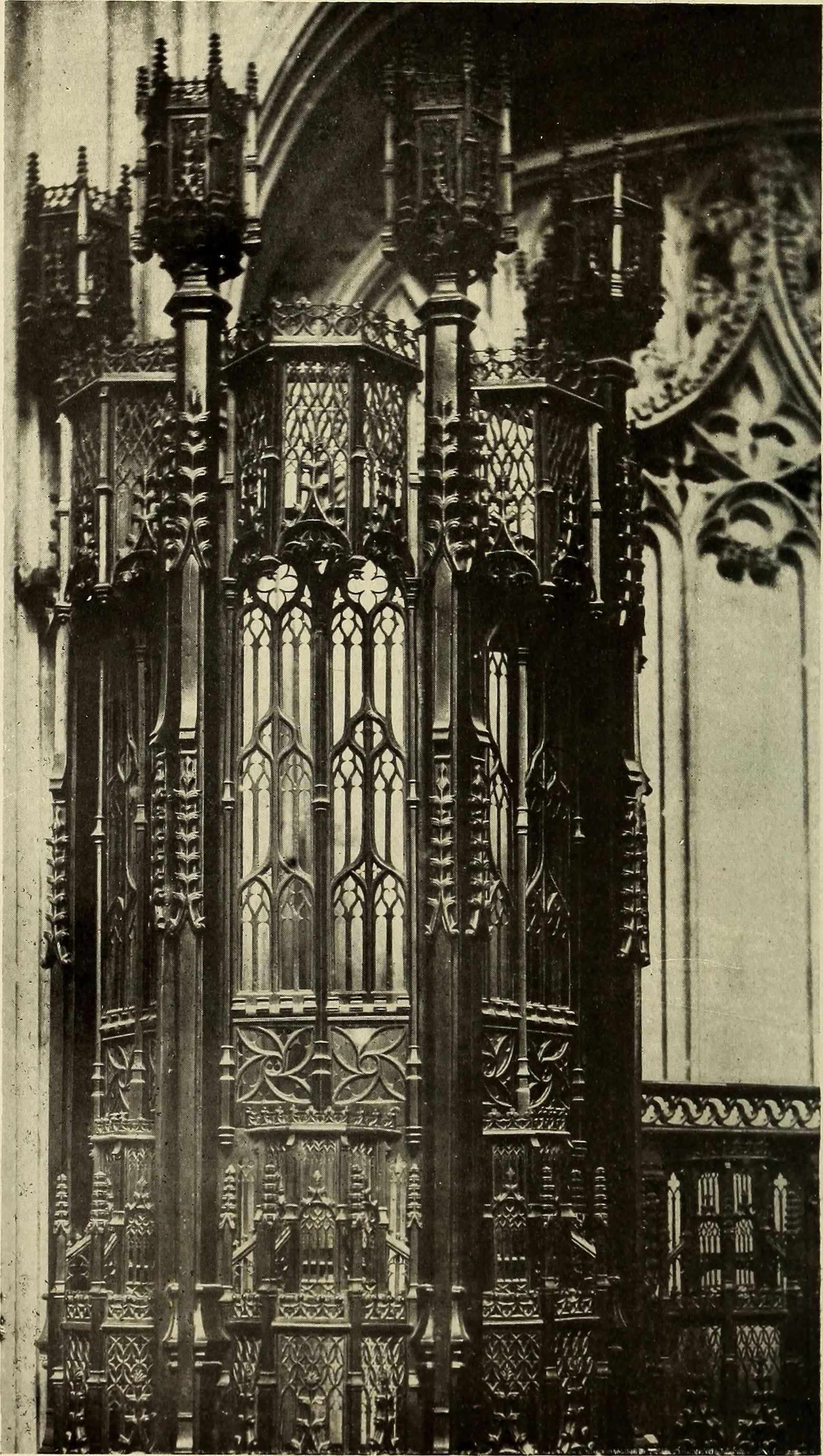 Title: Ironwork .. Year: 1922 (1920s) Authors: Gardner, John Starkie, 1844-1930 Watts, W. W Victoria and Albert Museum Subjects: Publisher: London, Printed under the authority of the Board of Education Text Appearing Before Image: Fig. i6.—Tomb-railing (Herse). From Snarford Church, Lincolnshire. 15thcentury. In the Victoria and Albert Museum, No. 47-1867. (p. 32). Text Appearing After Image: Fig. 17.—Upper part of a gate pier, St. Georges Chapel, Windsor.By John Tresilian. End of 15th century. (P- 34)